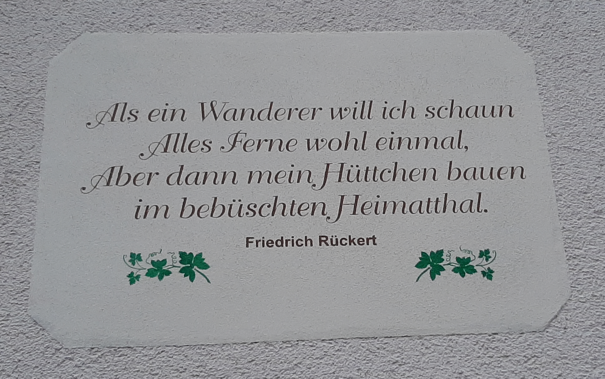 Quote of Friedrich Rückert shown at the wall of a house in Oberlauringen, Bavaria, Germany